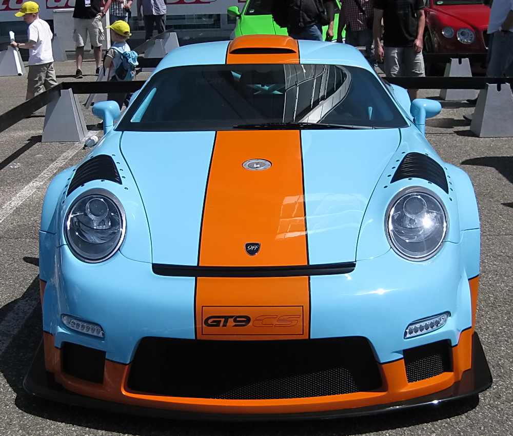 9ff GT9-CS - Front View - Hockenheim 2012 - Orange and Blue